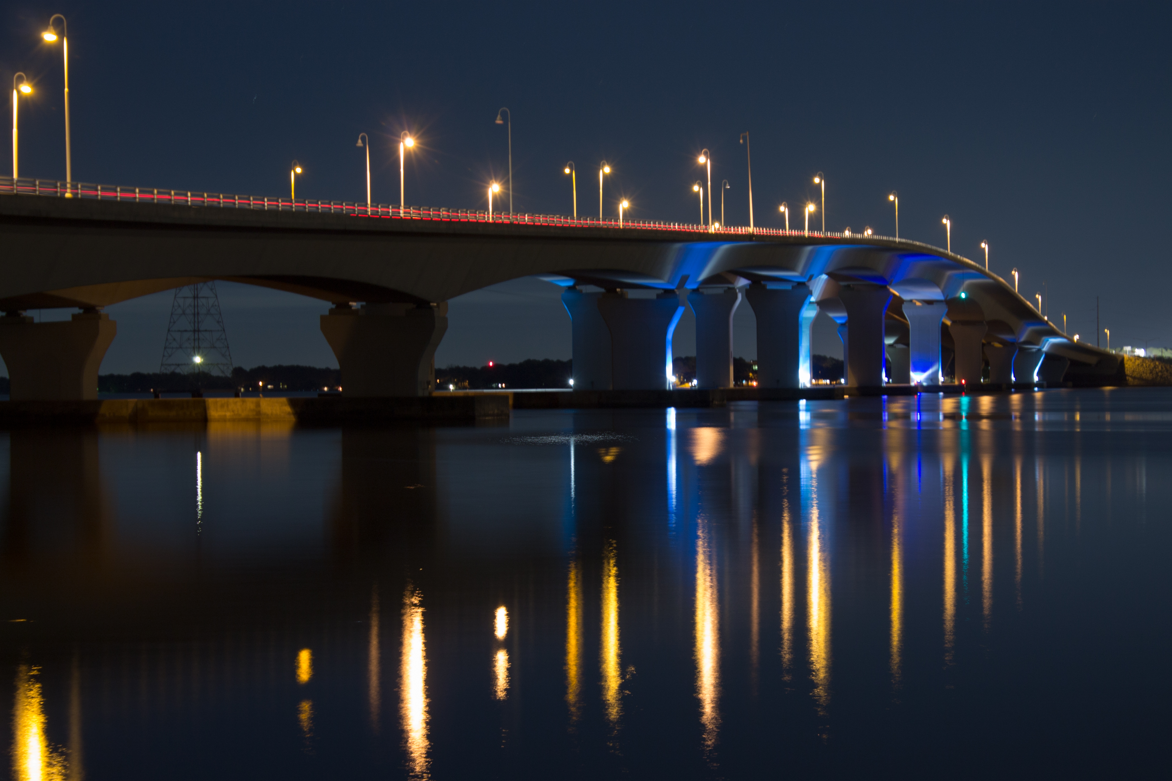 The Hathaway Bridge in Panama City Beach, looking east.